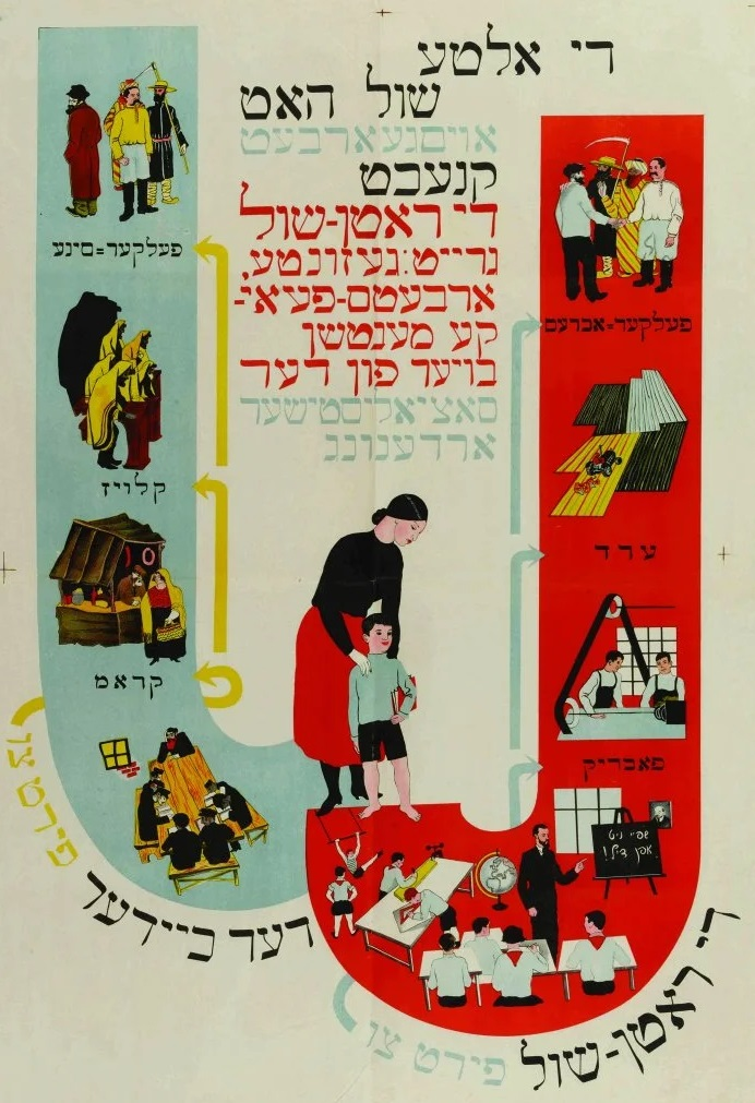 A Soviet propaganda poster in Yiddish, published between 1920 and 1932 (based on the orthography: modernized, yet still including final form letters) juxtaposing traditional Jewish Cheders with state schools. The former bring ignorance and poverty, the latter educate productive citizens. Large font, middle: The old school created slaves, the Soviet school prepares healthy, productive humans, builders of the socialist order. Left: The Cheder leads to... (top to bottom) hate among peoples; study hall; being a hawker. Right: The Soviet school (on the blackboard: don't spit on the floor) leads to: Friendship among peoples; land; factory.